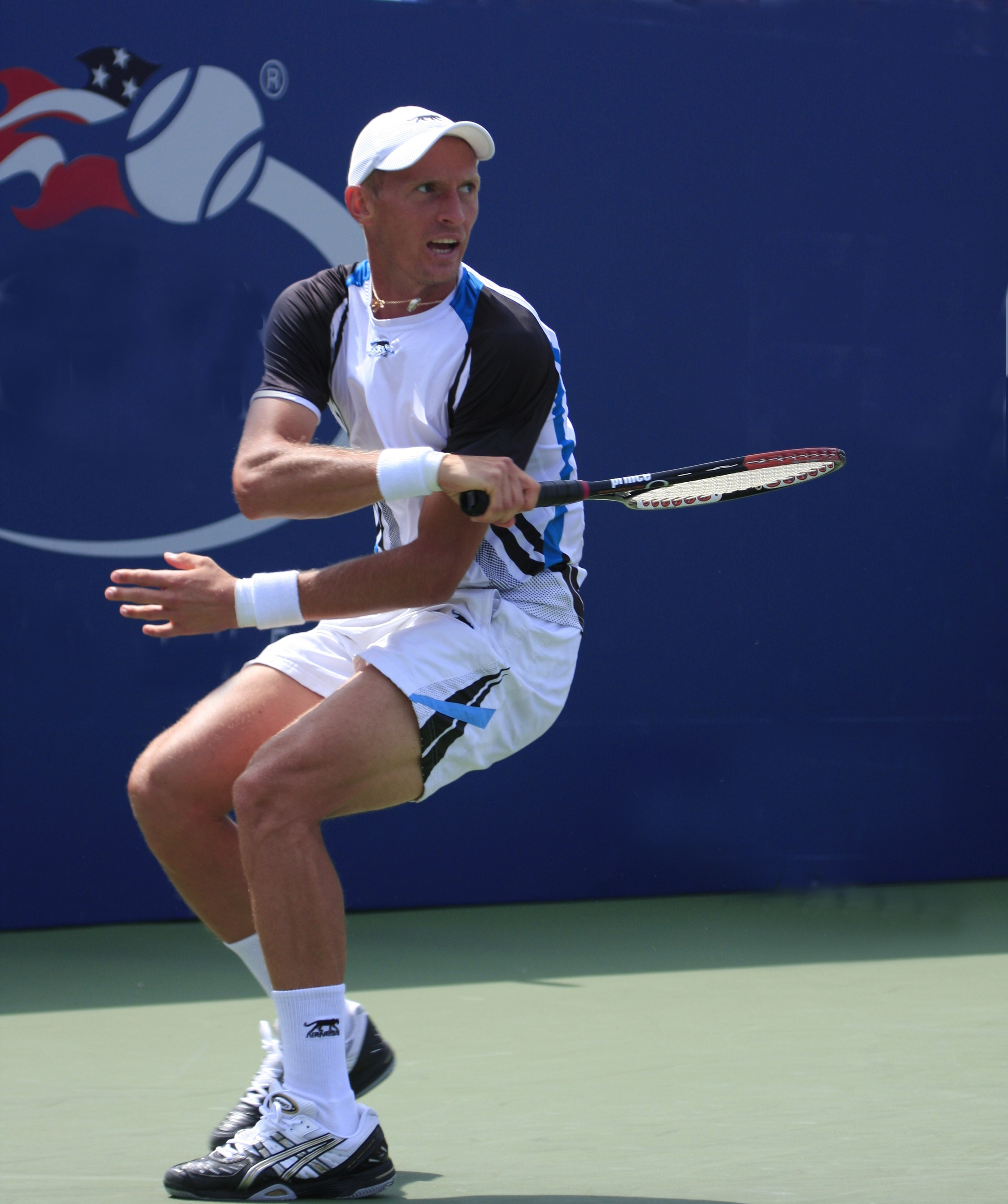 Nikolay Davydenko of Russia in match with Sweden's Robin Soderling at 2009 US Open